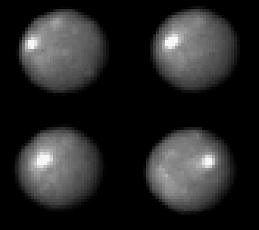 NASA's Hubble Space Telescope took these images of the asteroid 1 Ceres over a 2-hour and 20-minute span, the time it takes the Texas-sized object to complete one quarter of a rotation. One day on Ceres lasts 9 hours. Hubble snapped 267 images of Ceres as it watched the asteroid make more than one rotation. By observing the asteroid during a full rotation, astronomers confirmed that Ceres has a nearly round body like Earth's. Ceres' shape suggests that its interior is layered like those of terrestrial planets such as Earth. Ceres may have a rocky inner core, an icy mantle, and a thin, dusty outer crust inferred from its density and rotation rate. The bright spot that appears in each image is a mystery. It is brighter than its surroundings. Yet it is still very dark, reflecting only a small portion of the sunlight that shines on it. Ceres is approximately 580 miles (930 kilometers) across and is the largest known asteroid. It resides with tens of thousands of other asteroids in a region between the orbits of Mars and Jupiter called the main asteroid belt. Besides being the largest asteroid, Ceres also was the first to be discovered, in 1801. Astronomers enhanced the contrast in these images to bring out important features on Ceres' surface. The observations were made in visible and in ultraviolet light. Hubble took the snapshots between December 2003 and January 2004.